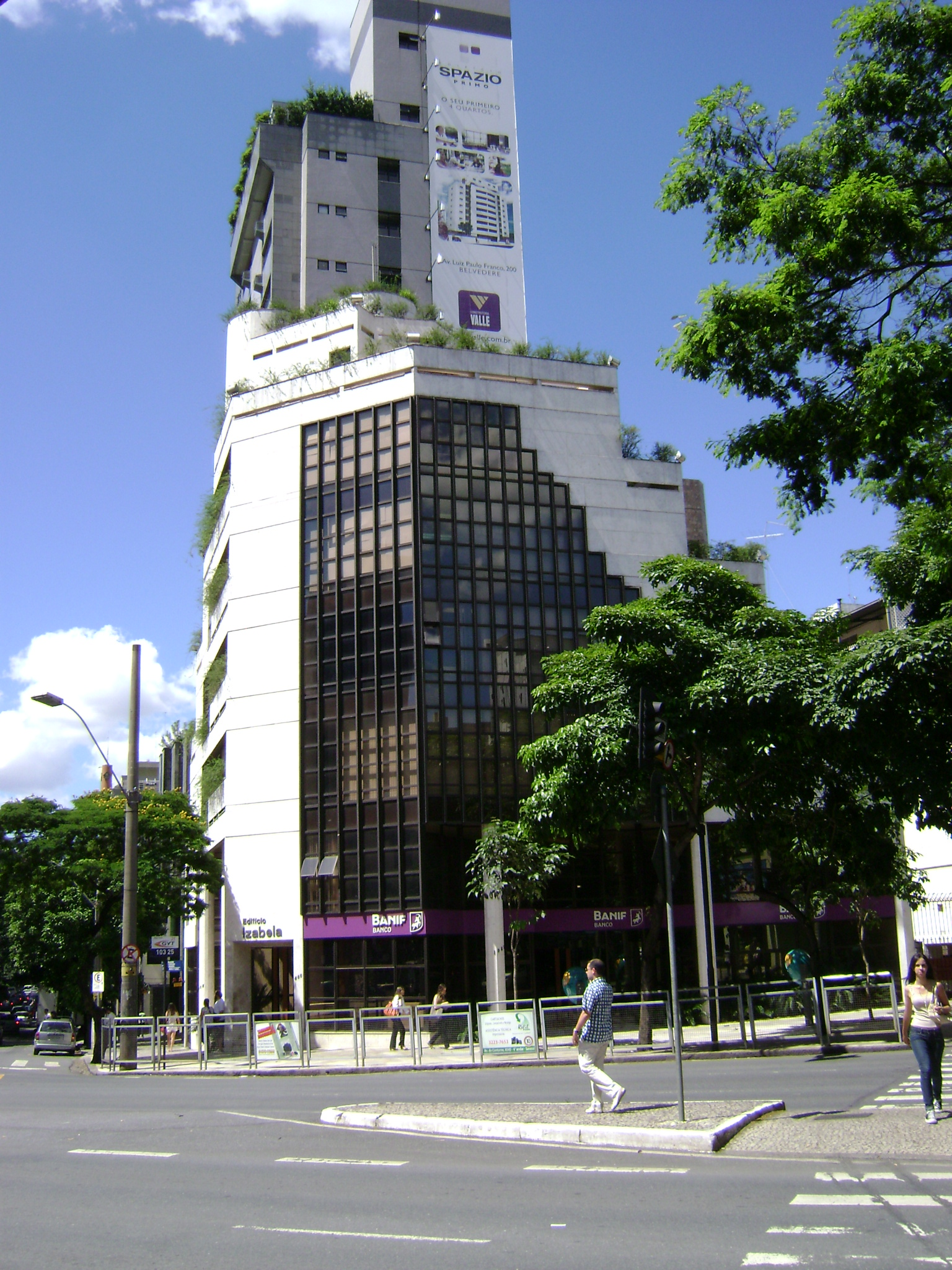 Banif Bank building at Savassi av., Belo Horizonte, Brazil